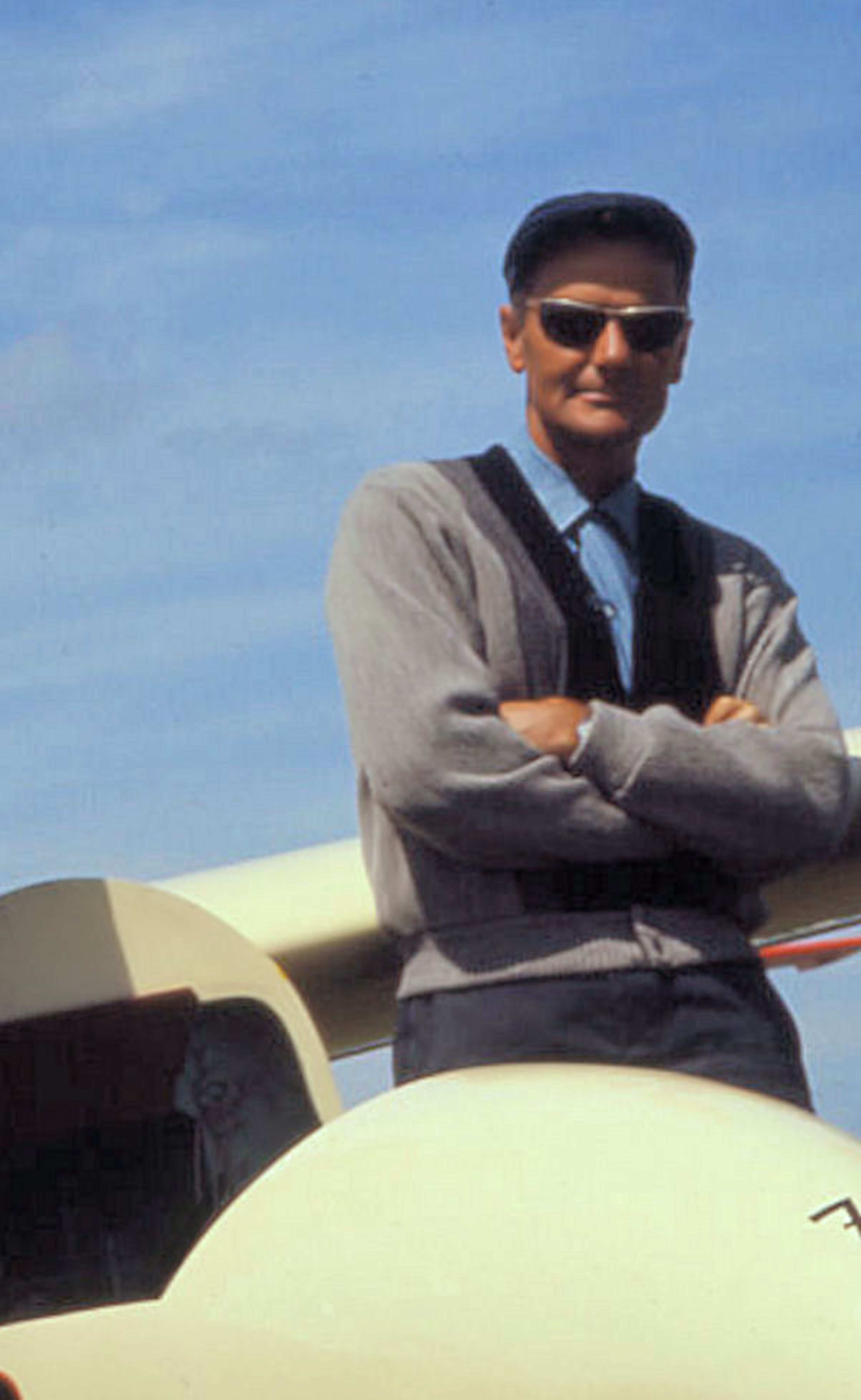 Wally Scott, World Gliding Championships, South Cerney England